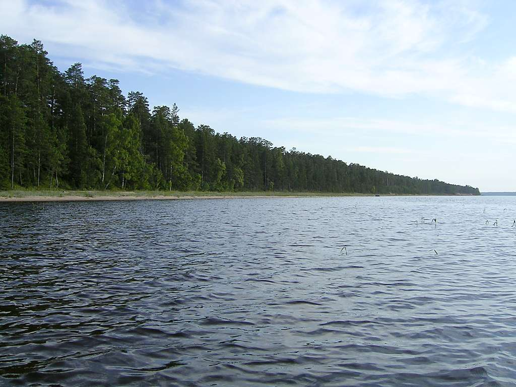 The island of Konevets in Lake Ladoga on which Konevets Monastery is located.